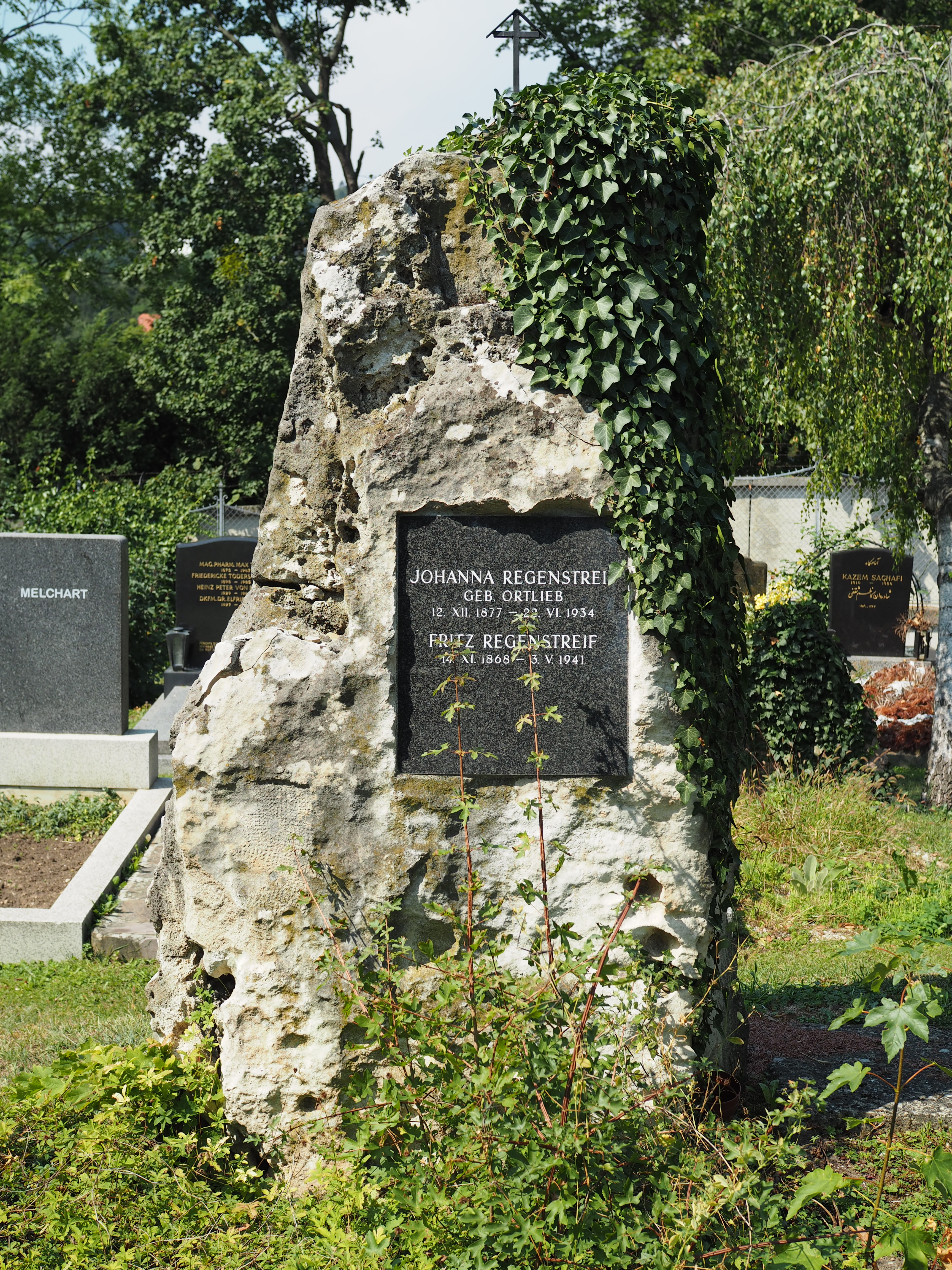 Grave of the wood industrialist Fritz Regenstreif (1868–1941) and his wife Johanna (née Ortlieb; 1877–1934) at the Pötzleinsdorf cemetery, 1180 Vienna (group B, row 14, number 156)